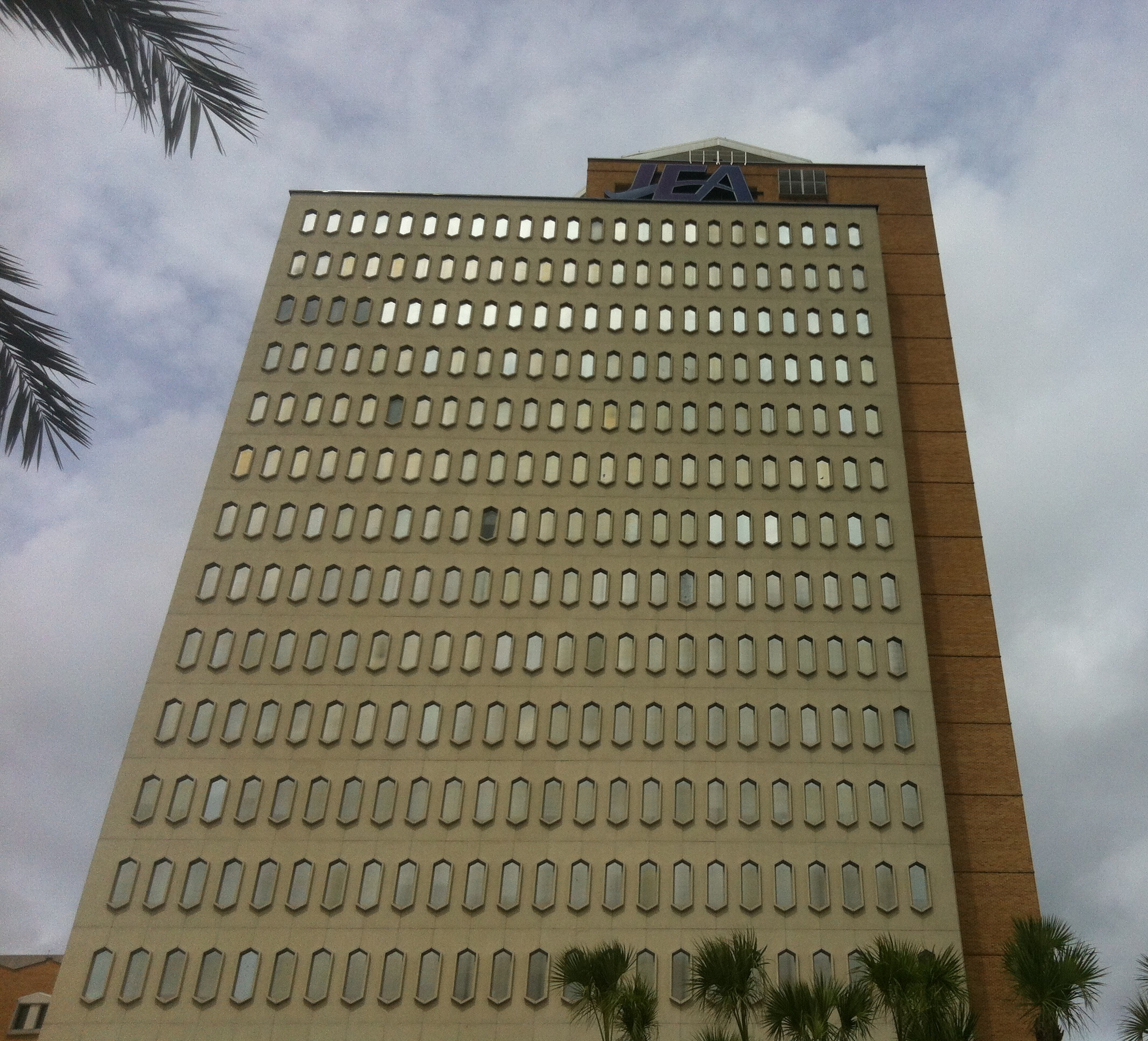 JEA Tower, Jacksonville, Fl. Taken 4/12/15